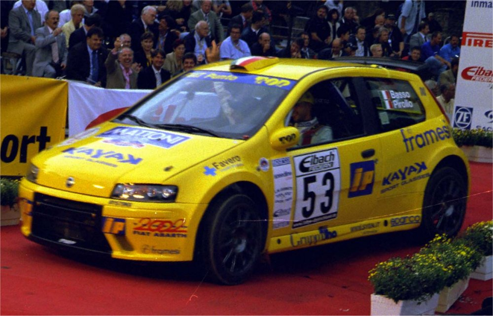 Giandomenico Basso in Punto S1600 at the start of ADAC Rally Deutschland 2002 in Trier.